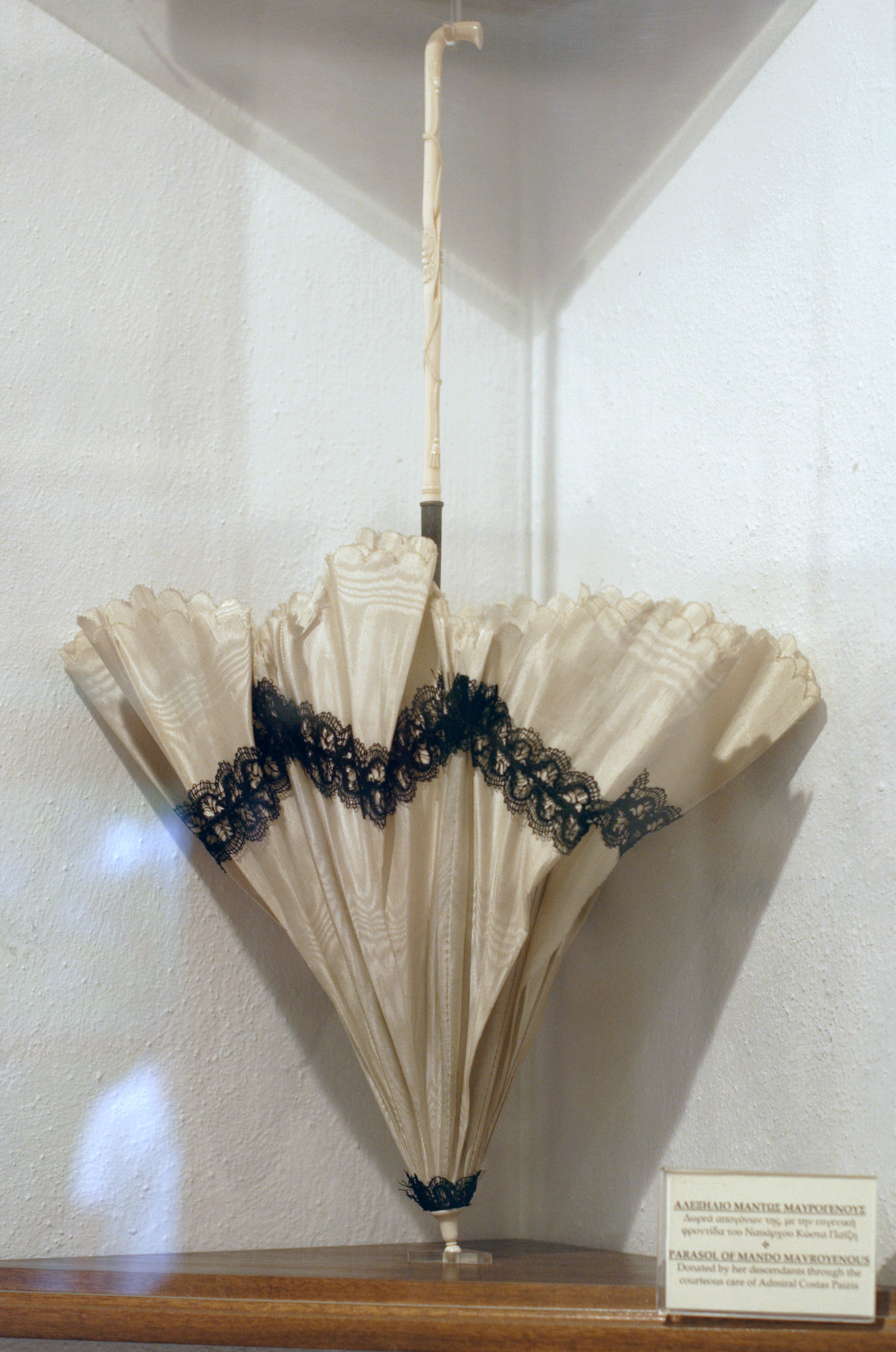 Paraple itself Manto Maurogenous (Mado Mavrogenous), liberator of the island of Mykonos in 1821, more about umbrella. The point is that it gave Admiral Carlos Paizis! Materials: silk and ivory. Mykonos, Aegean Maritime Museum.